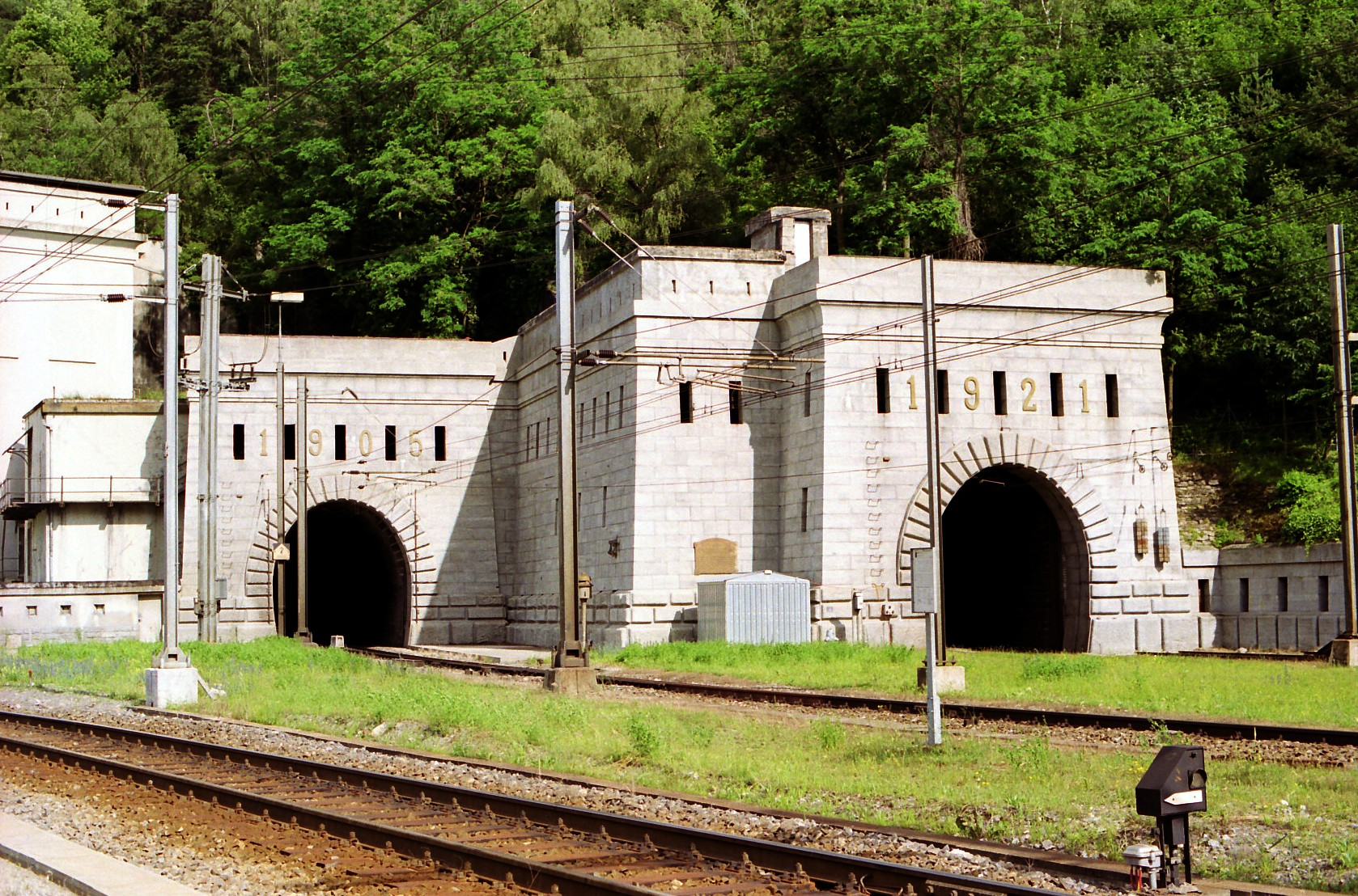 simplon railway tunnel entrance switzerland